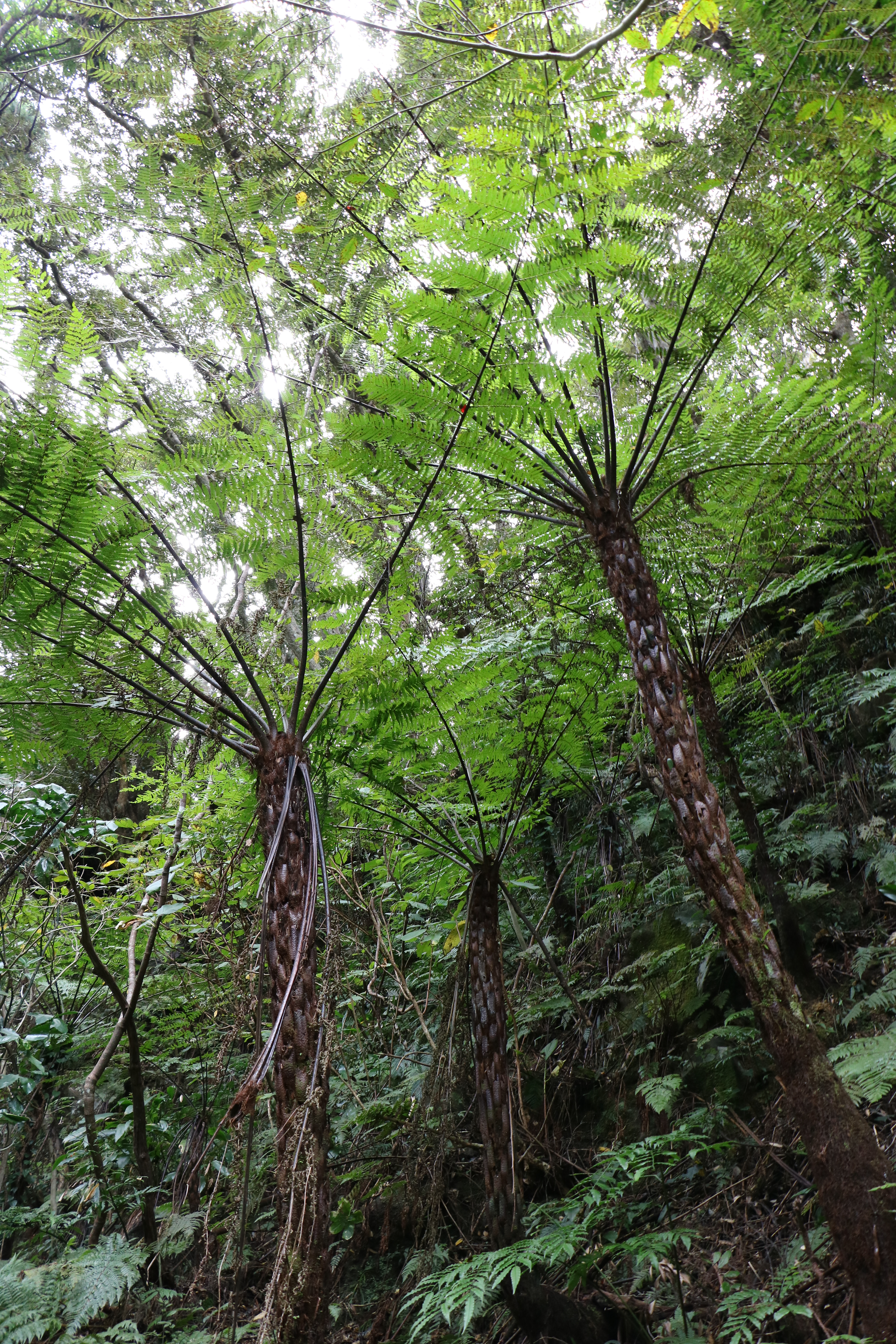 Northern limit of Hego habitat in Hachijojima Island